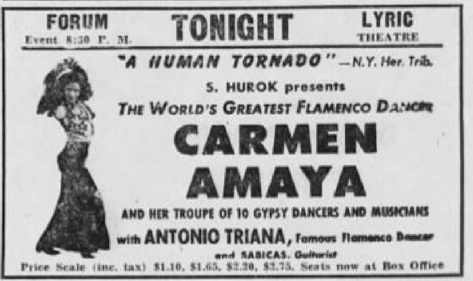 Lyric Theater advertisement for a show with dancer Carmen Amaya - Allentown PA